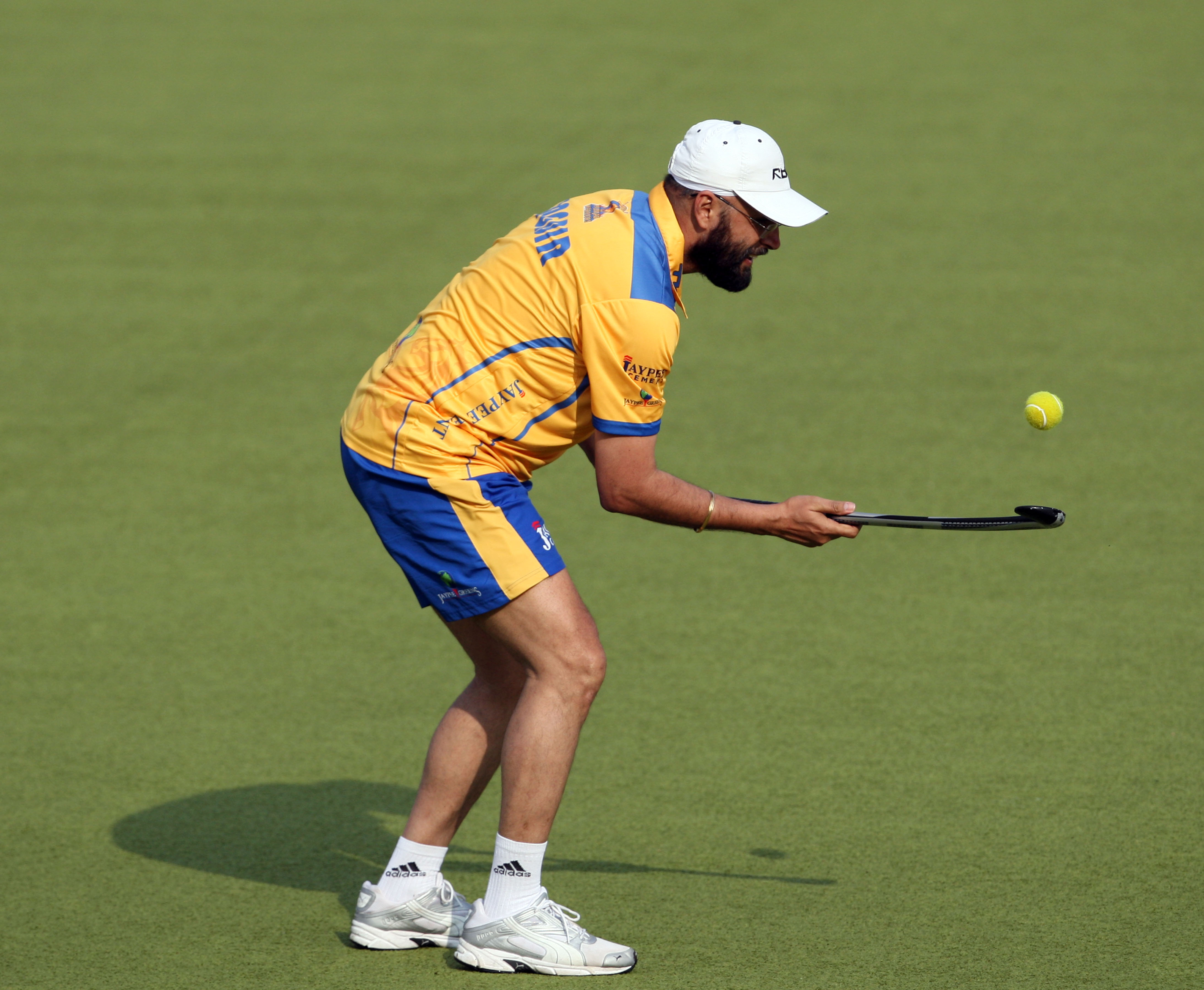 jagbir singh coach of team JPW